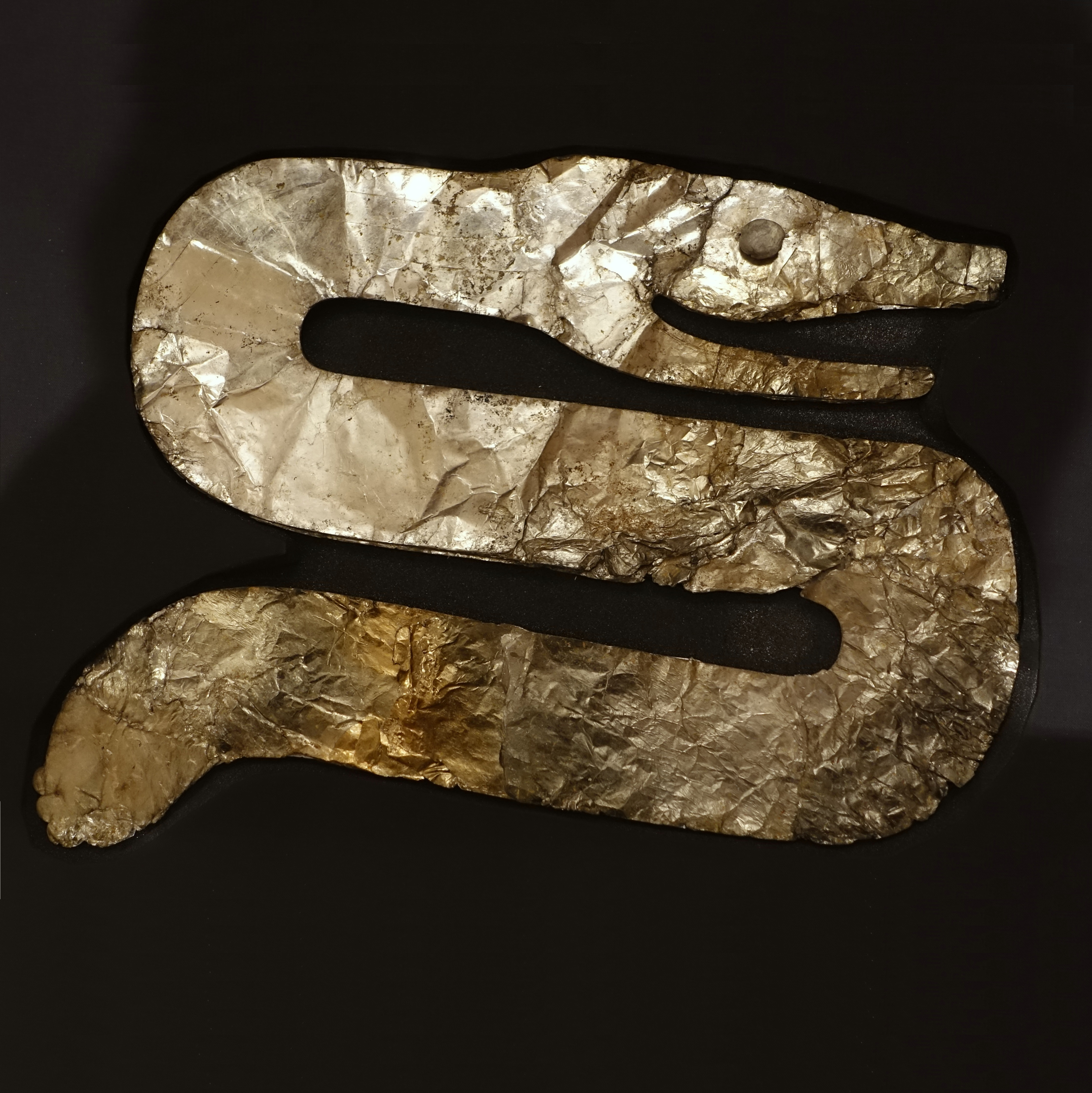 Serpent effigy, Hopewell culture, Turner Group, Mound 4, altar, Little Miami Valley, Ohio, 200 BC to 500 AD, mica - Native American collection - Peabody Museum, Harvard University